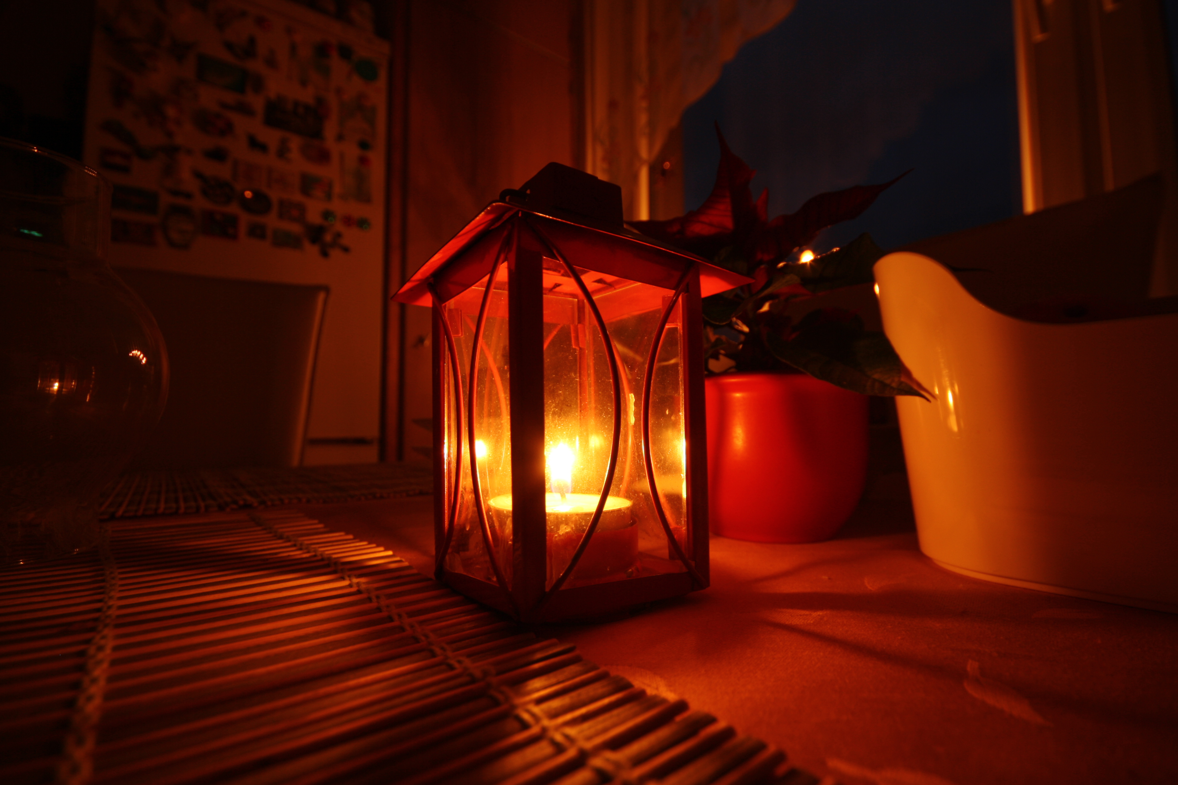 Bethlehem light in Třebíč.